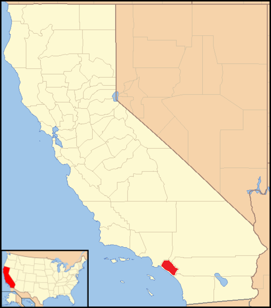 The Diocese of Orange in the Catholic Church encompasses Orange County in Southern California, USA.